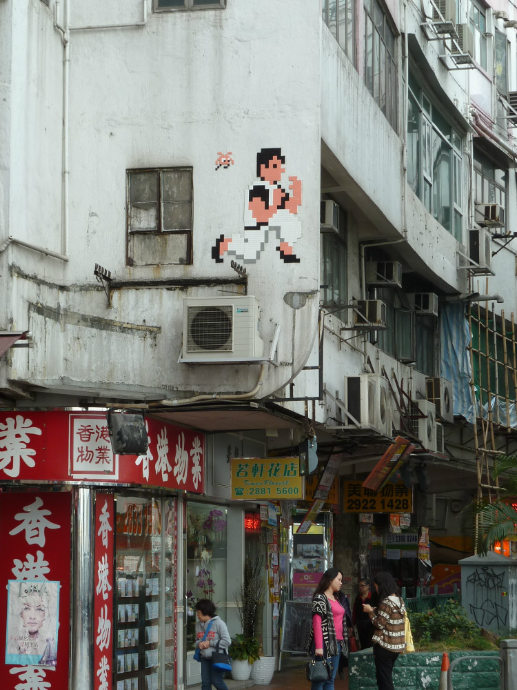 Kung fu mosaic (Hong-Kong 2014 / 50 PTS) installed 2014 by Invader on Cannon Street, Hong Kong.